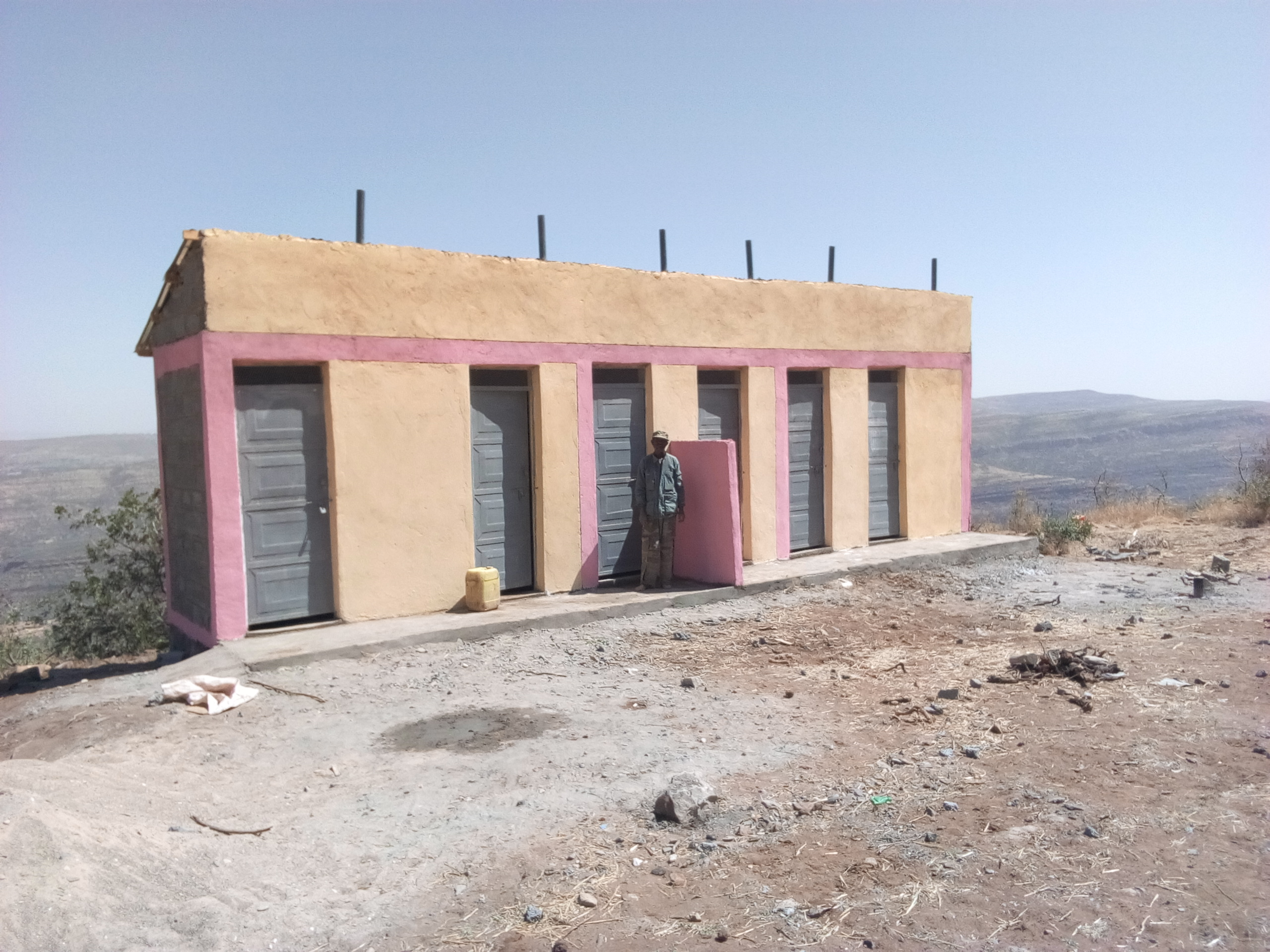 Kolal ecosan